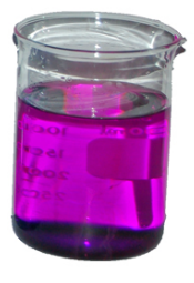 Potassium permanganate flask